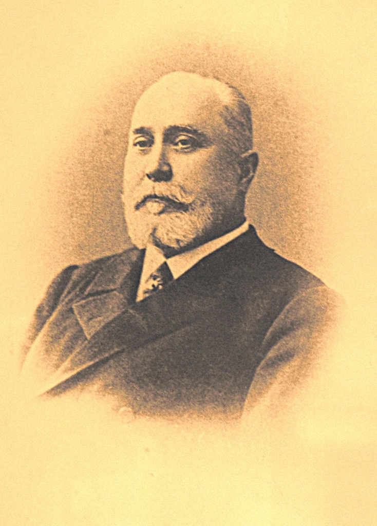 Matvey Sidorovitch Kuznetsov (1846-1911), russian industrialist (photo 1911).